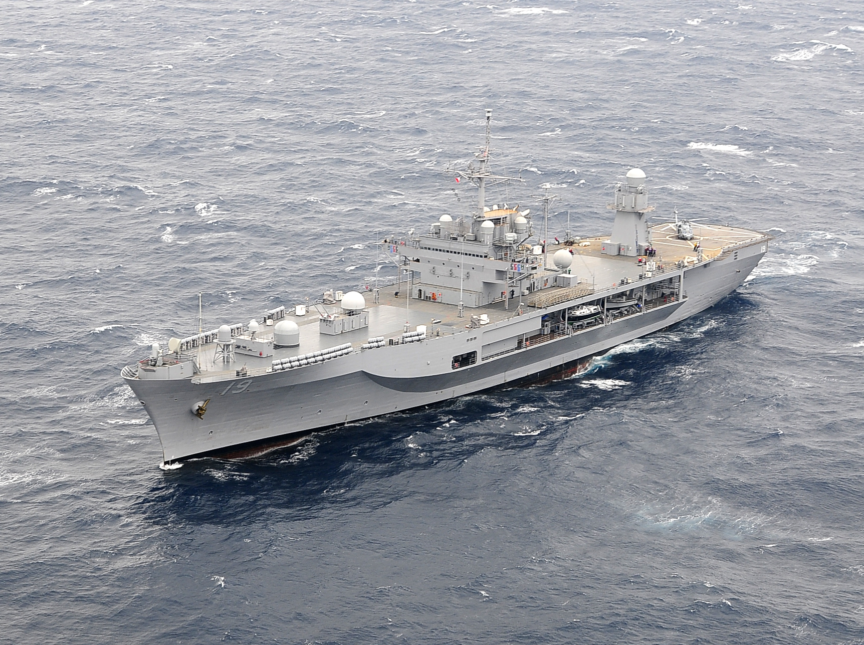 The U.S. 7th Fleet flagship USS Blue Ridge (LCC-19) transits the South China Sea during a Spring patrol. Blue Ridge served as a command and control platform for 7th Fleet Commander Vice Admiral Robert L. Thomas.